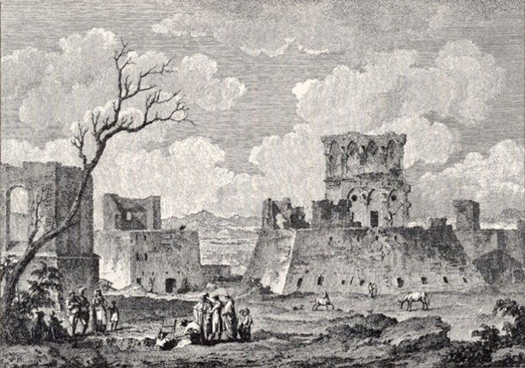 Lucera, il palazzo di Federico